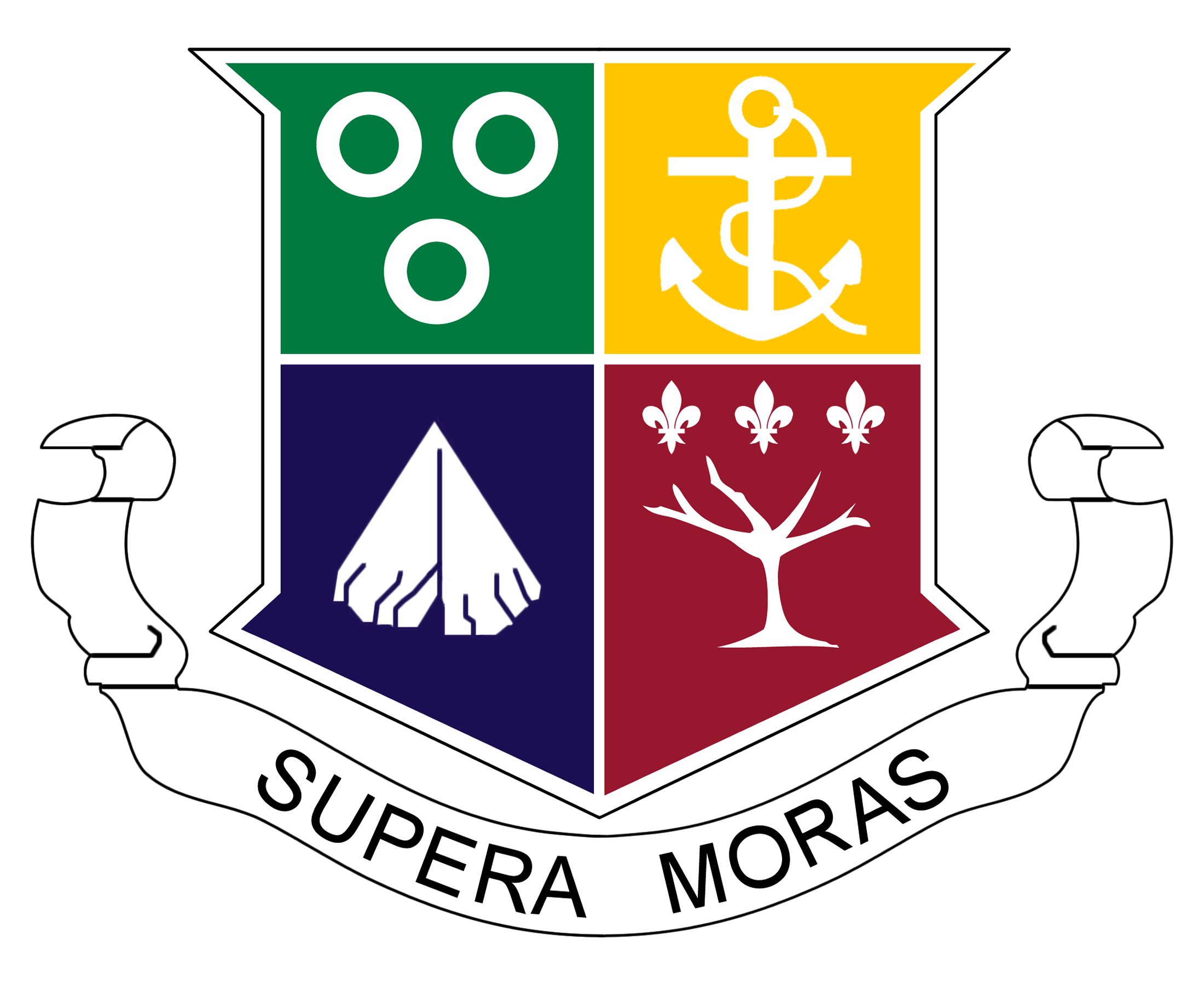 This is the newly revised badge (2013) By Chris Merrington